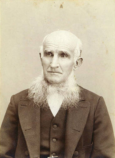 Studio portrait, front facial view. PH Coll 277.BYP1 Subjects (LCTGM): Pioneers--Washington (State)--Seattle Subjects (LCSH): Mercer, Thomas, 1813-1898